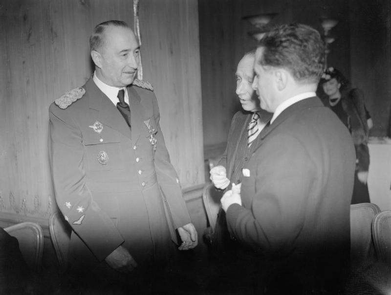 General Dusan Simovic, the Premier of the Yugoslav Government in Exile, talking to guests at a reception in London.